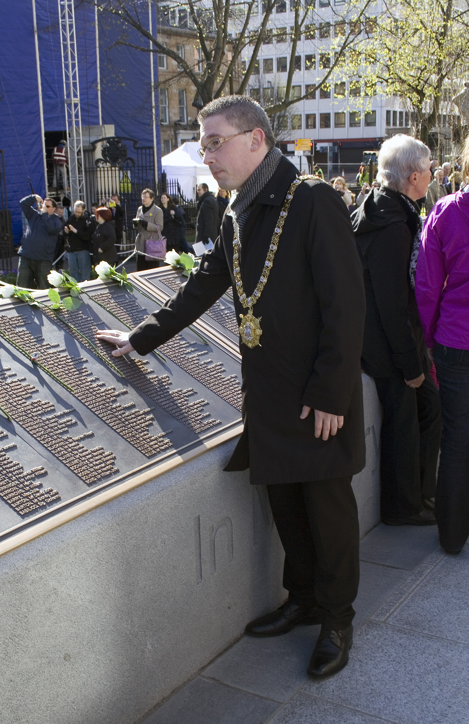 Niall Ó Donnghaile attending the opening of the Titanic Memorial Garden, Belfast